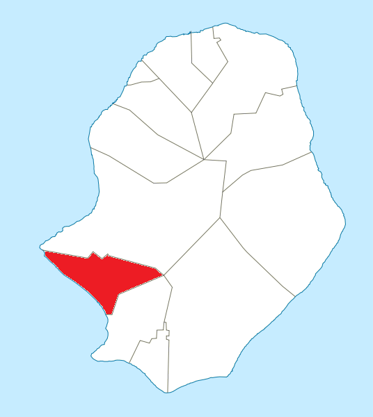 Location map for Tamakautoga, Niue. Based on file:Niue location map.svg.